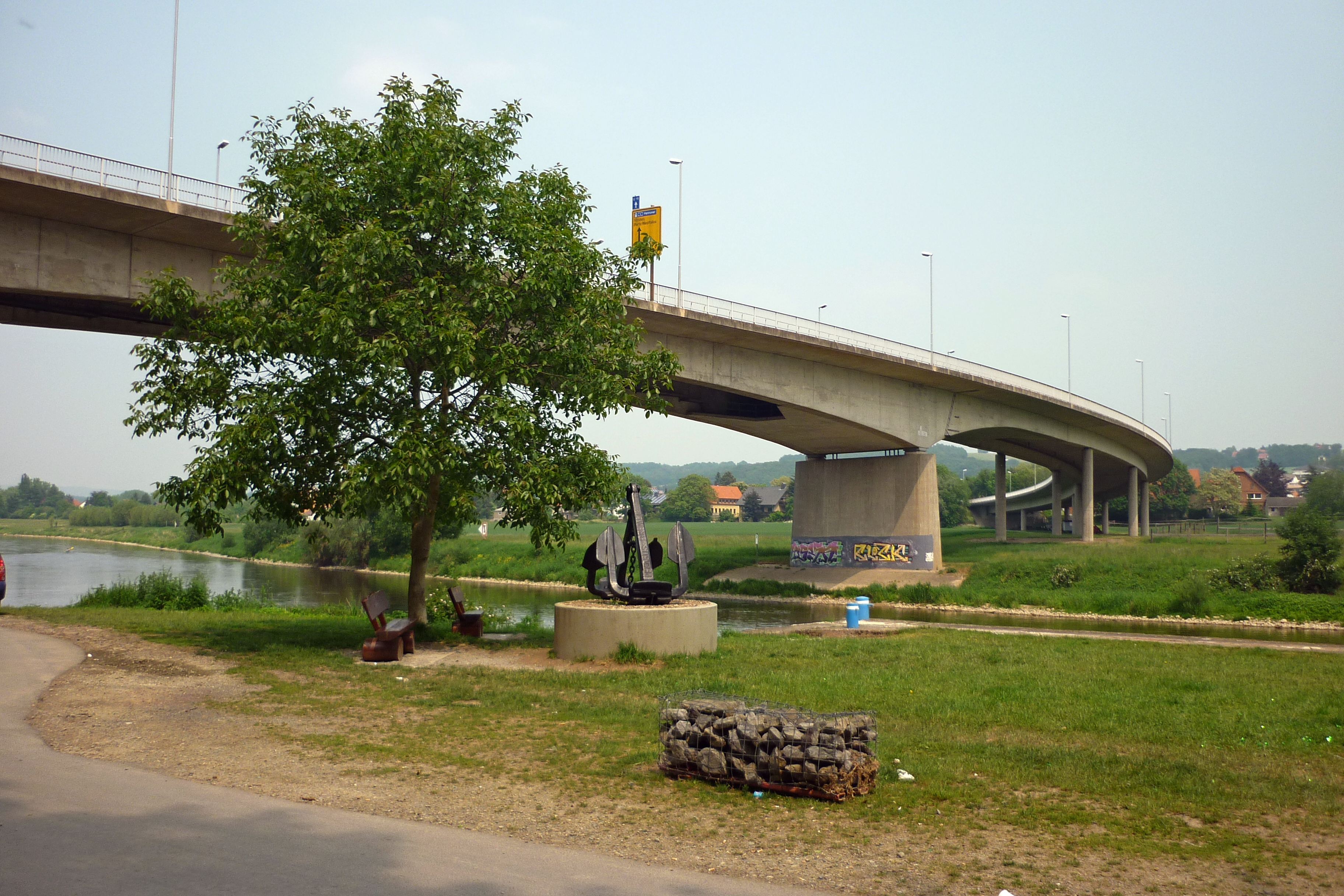 Vlotho (Germany), bridge over the Weser.